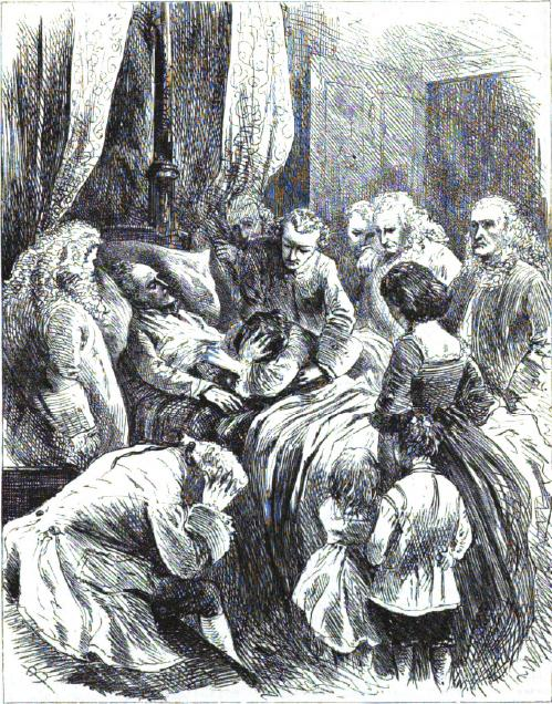 The Death Scene of the Emperor Charles VI.